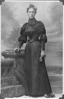 Portrait of Mary Kingsley (1862-1900)